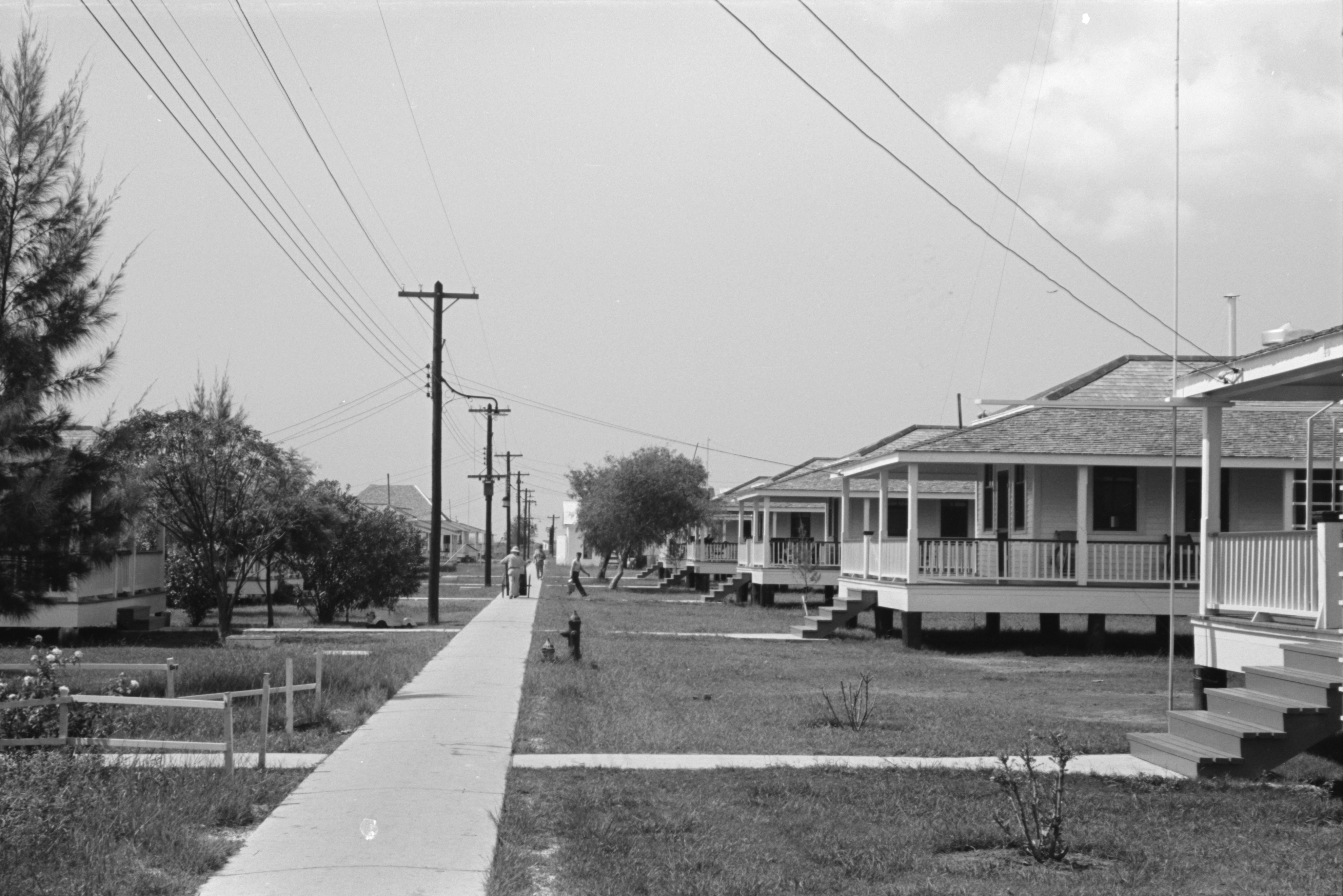 Row of cottages, Burrwood, Louisiana. This is chiefly a base for dredging operations of U.S. Engineering Corps, 1938.